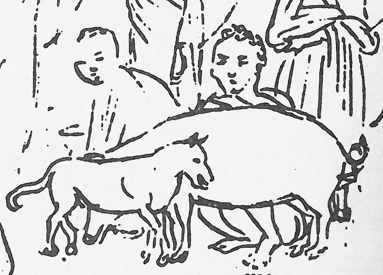 Hawaiian natives wearing kihei, with animals, manuscript sketch by Louis Choris. The dog in the center has been claimed as the only extant image of a Hawaiian Poi Dog by Margaret Titcomb. "The small dog, middle rear, may have had more Hawaiian than foreign blood." This assessment is supported by anthropologist Katharine Luomala who noted: "The large dog at the left looks foreign. The smaller dog by the pig somewhat recalls the odd creature in Figures 7 and 8 [other Polynesian dogs]."